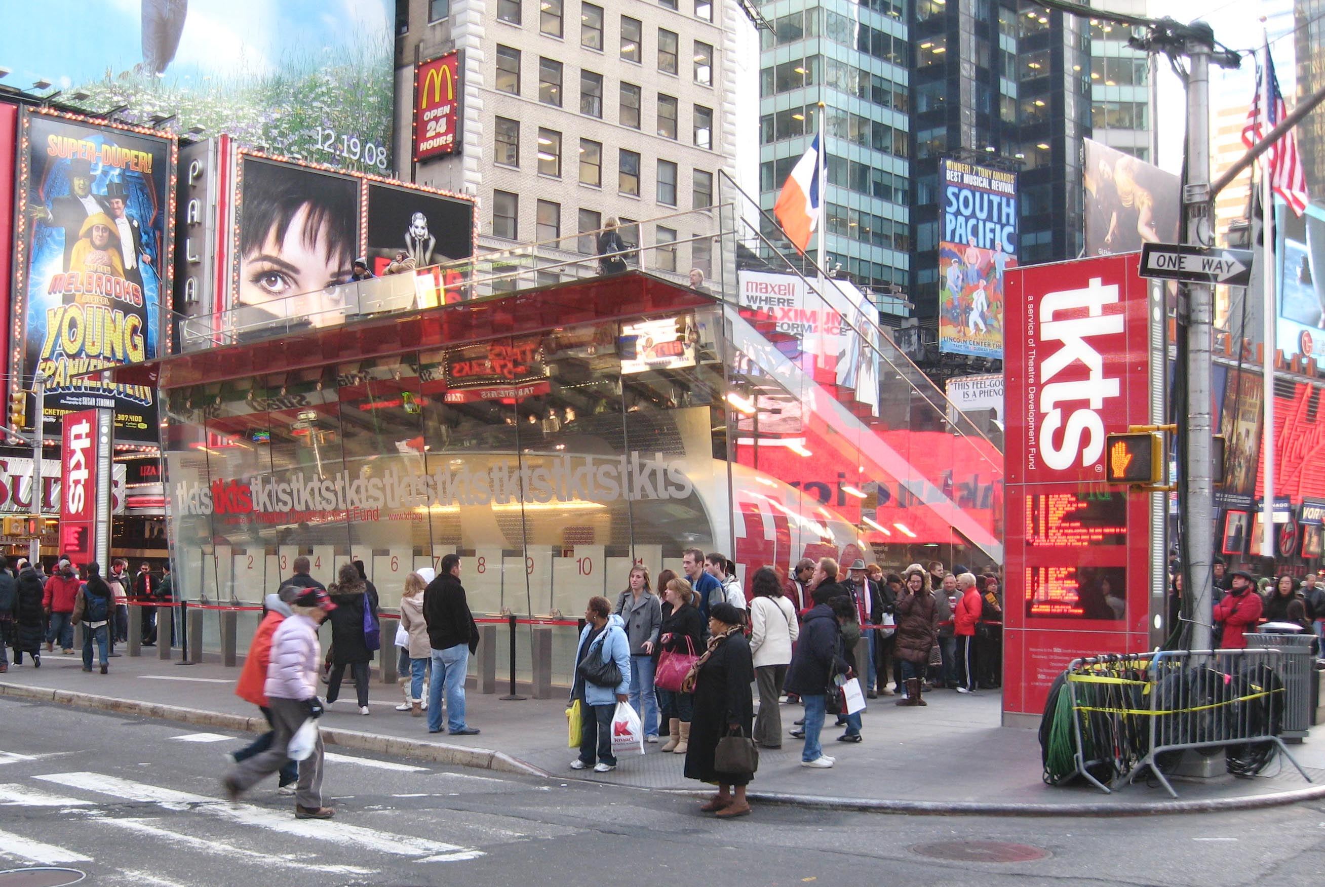 Looking southeast at TKTS ticket booth on a sunny afternoon.